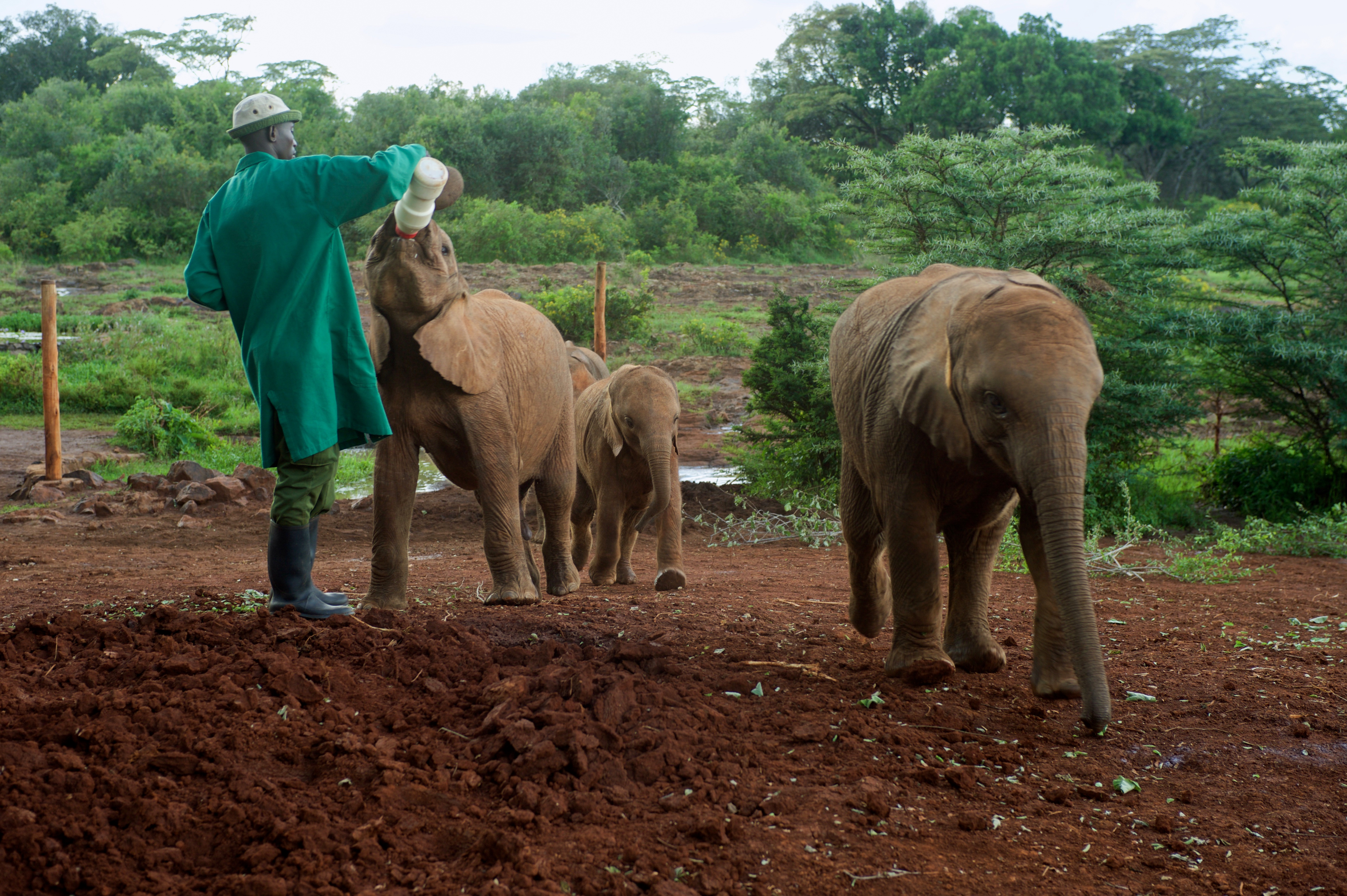 A caretaker feeds a baby elephant at the Sheldrick Elephant Orphanage in Nairobi National Park in Nairobi, Kenya, on May 3, 2015, as U.S. Secretary of State John Kerry visited following a tour of the Park and before a series of government meetings. [State Department Photo/Public Domain]